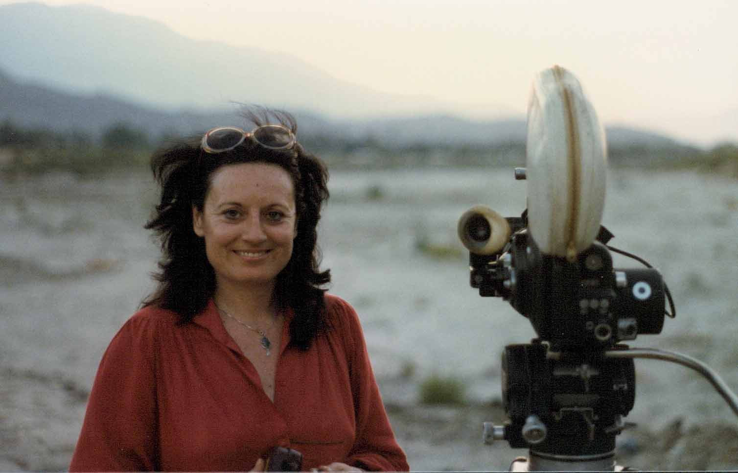 Katja Raganelli working on a film in 1992